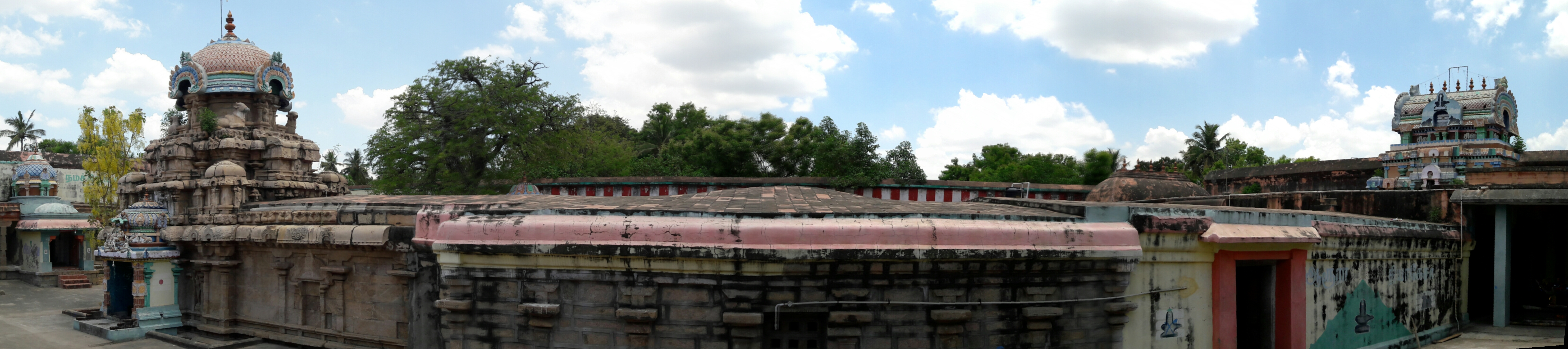 vedapureeswarar temple Thiruvedhikudi